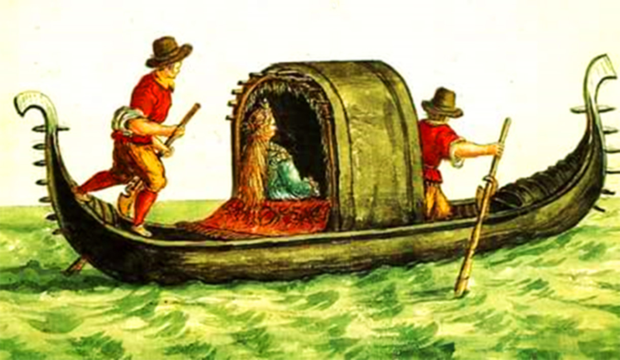 The Venetian bride in a gondola.